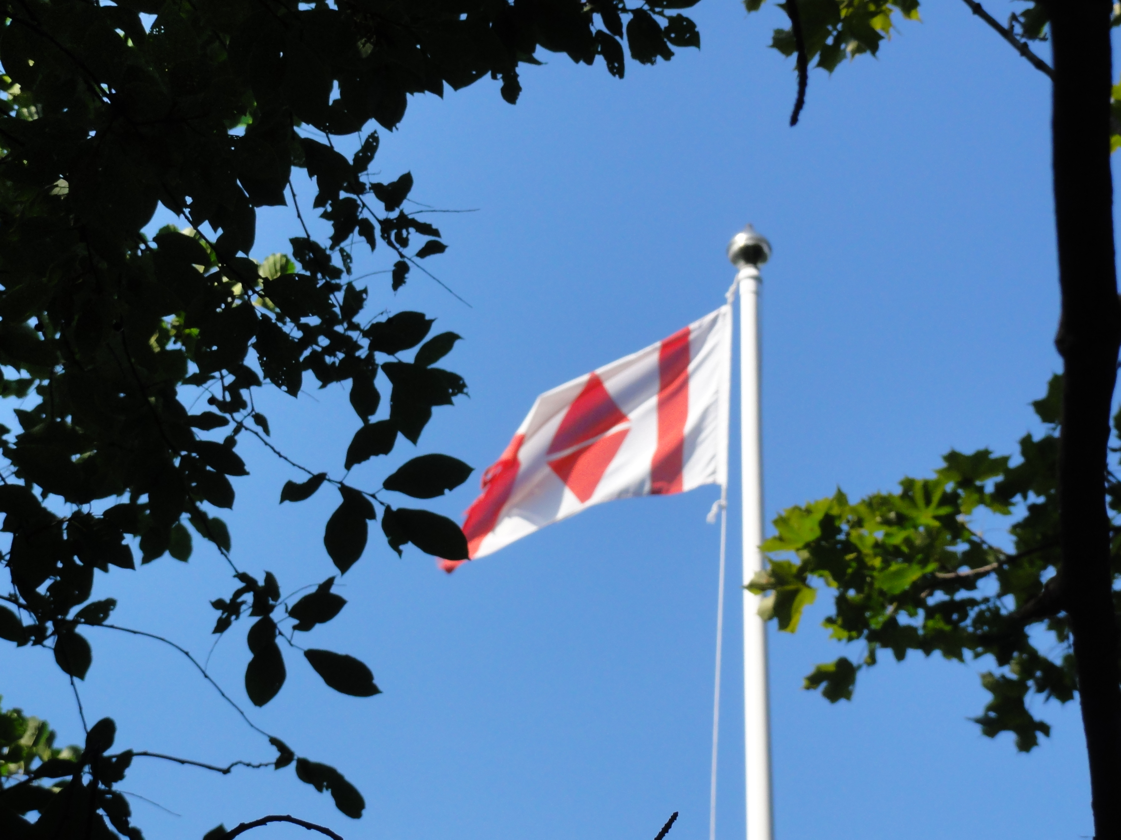 Flag on the bridge at Håtö Svansar